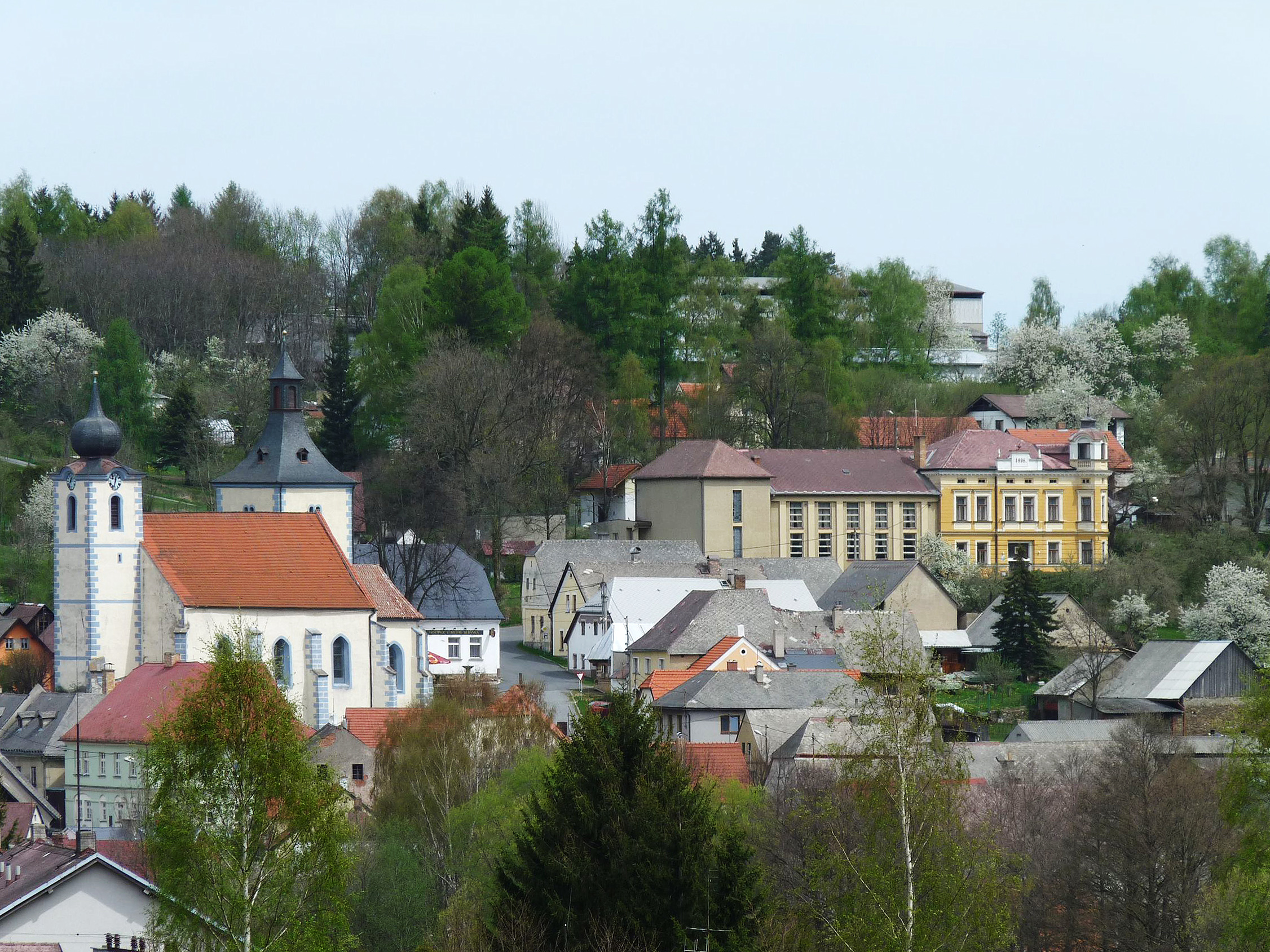 Church of the Nativity of the Virgin Mary and the municipal office building in the village of Velhartice, Klatovy District, Czech Republic